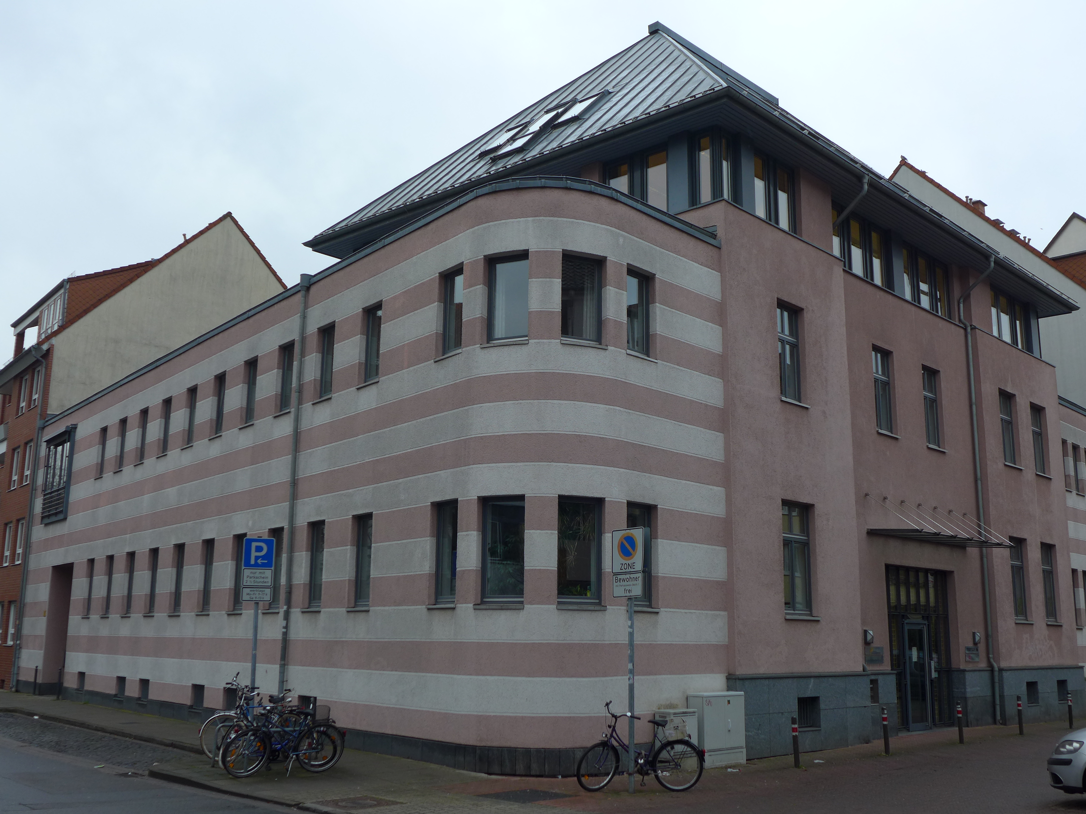 FIPH in 2015